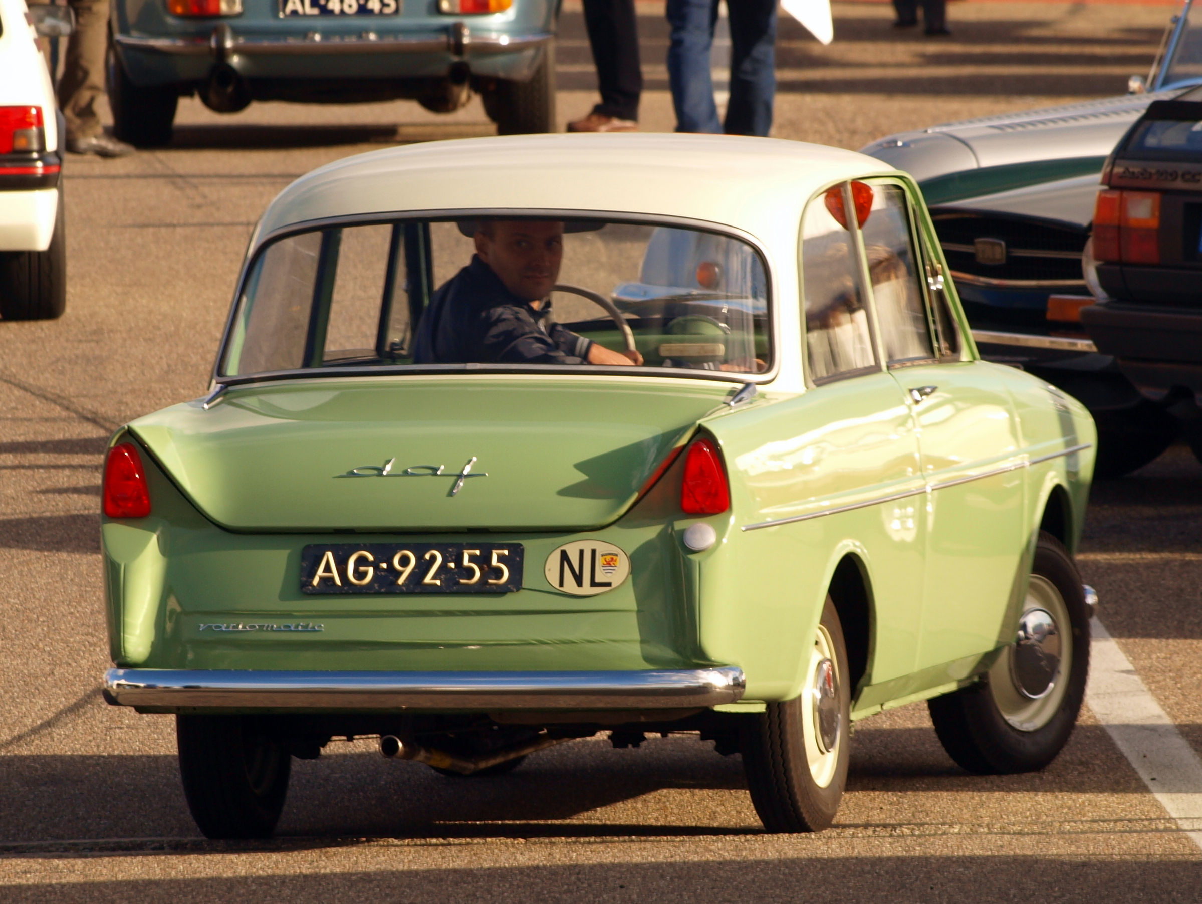 Photographed at the Nationaal Oldtimer Festival Zandvoort 2012. 1959 DAF 600